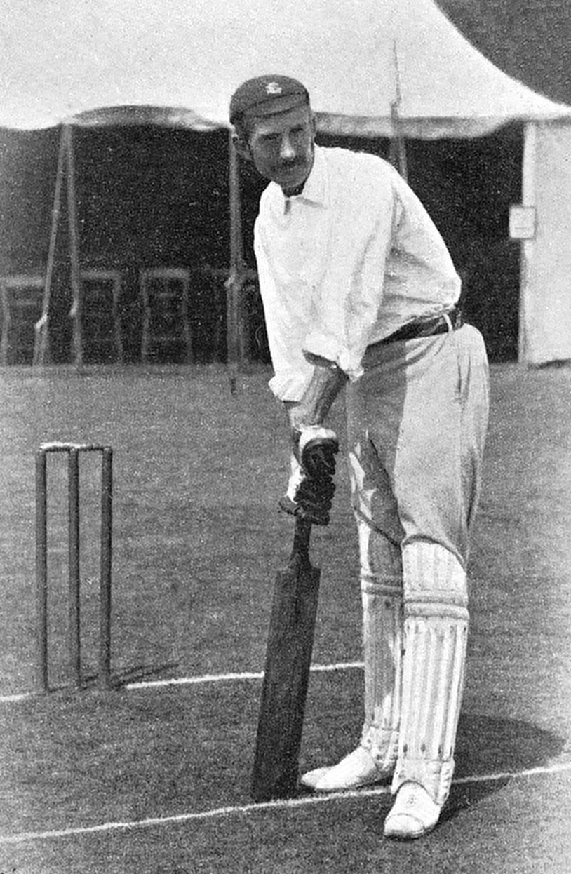 Scan of cricketer Maurice Read